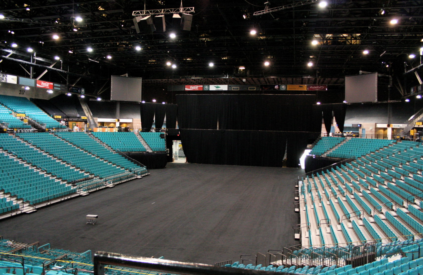 MGM Grand Garden Arena Interior - Paradise, Nevada U.S.A.